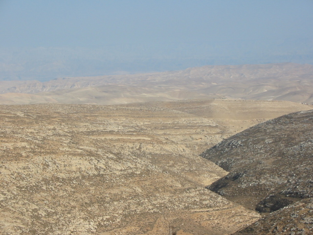 View to the east of Pnei Kedem